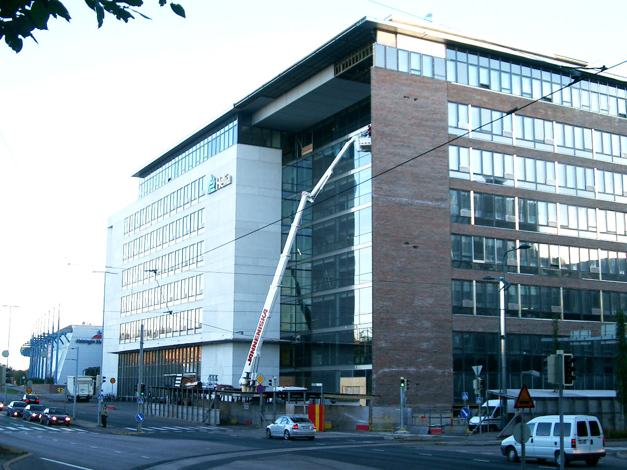 Helia house 1 in Pasila, Helsinki